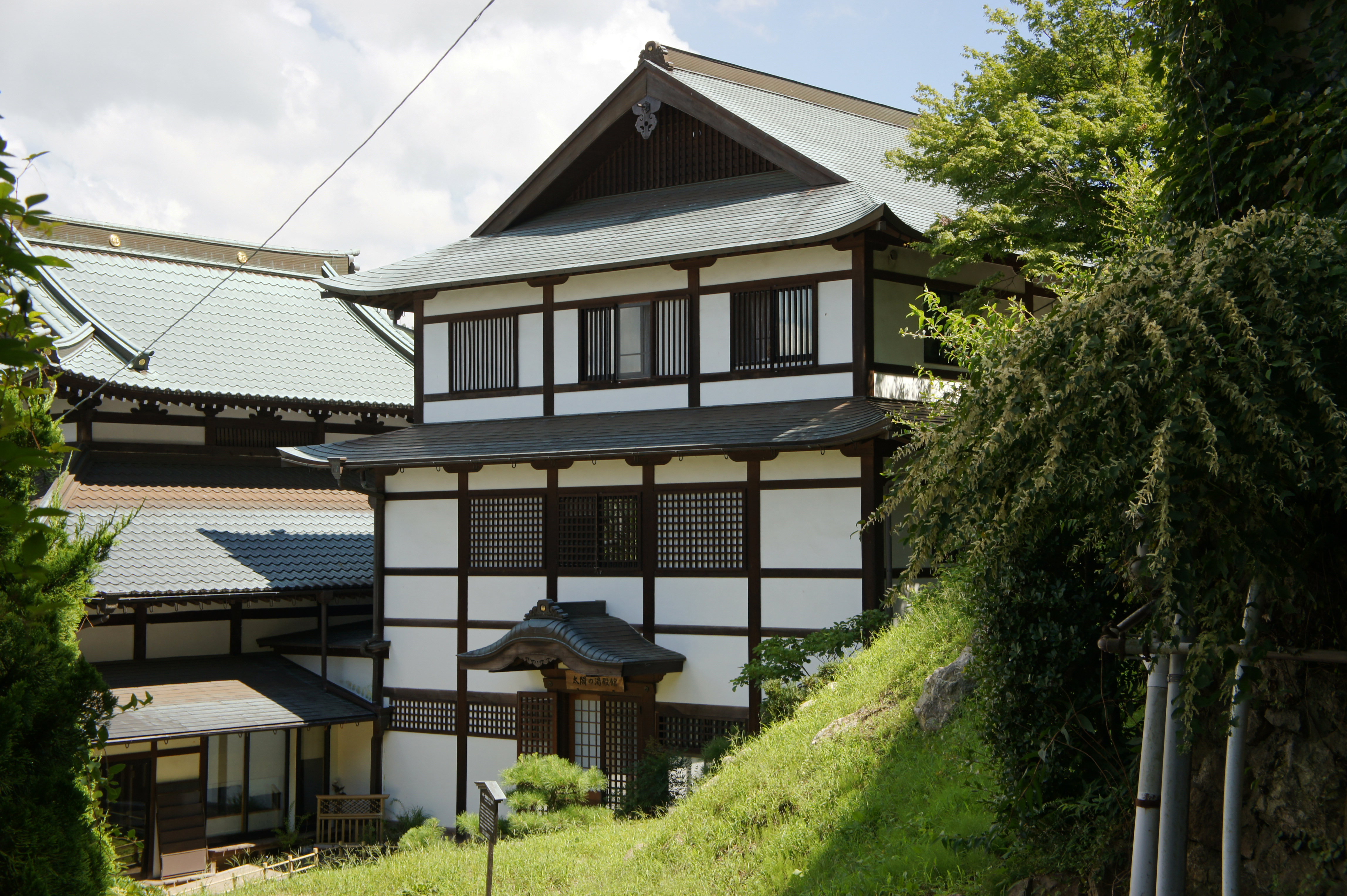 Kobe municipal museum "Taiko-no-yudonokan" of Arima Onsen in Kobe, Hyogo prefecture, Japan